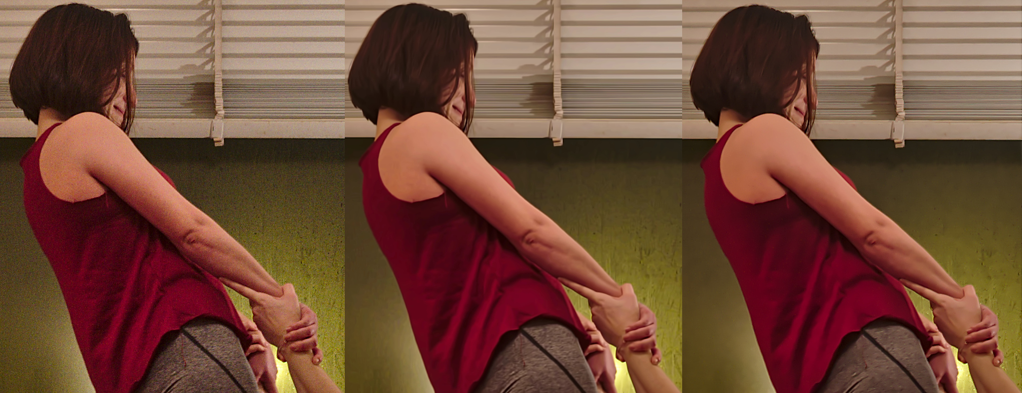 Noise reduction: Left: original crop from (processed but not denoised) raw image taken at ISO800 Middle: Denoised using bm3d-gpu (sigma=10, twostep) Right: Denoised using darktable 2.4.0 (profiled denoise 1 - mode: non-local means, patch size: 3, strength: 0.501, blend mode: lightness / profiled denoise 2 - mode: wavelets, strength: 0.151, blend mode: color)